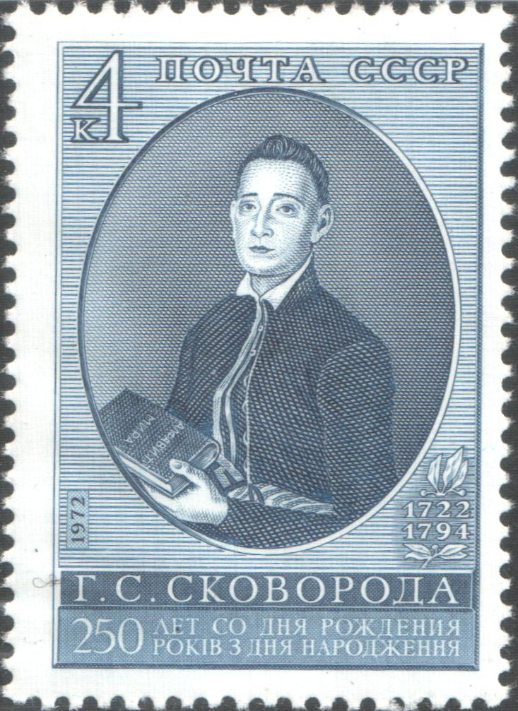 USSR Post